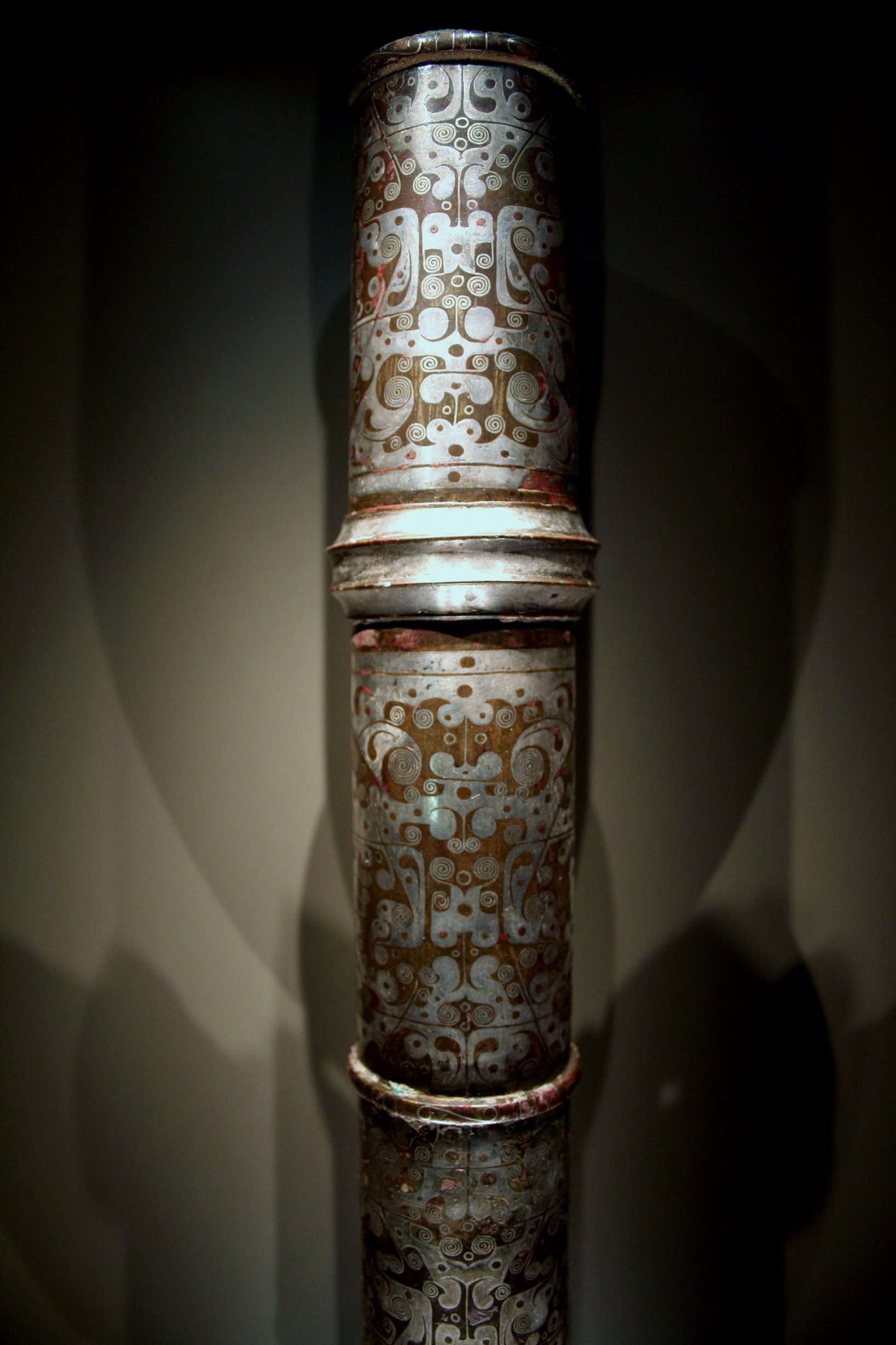 Sunshade Handgrip Ornament. Inlaid Bronze. Western Han Period (206 BC – 9 AD). Cernuschi Museum, Paris, France.